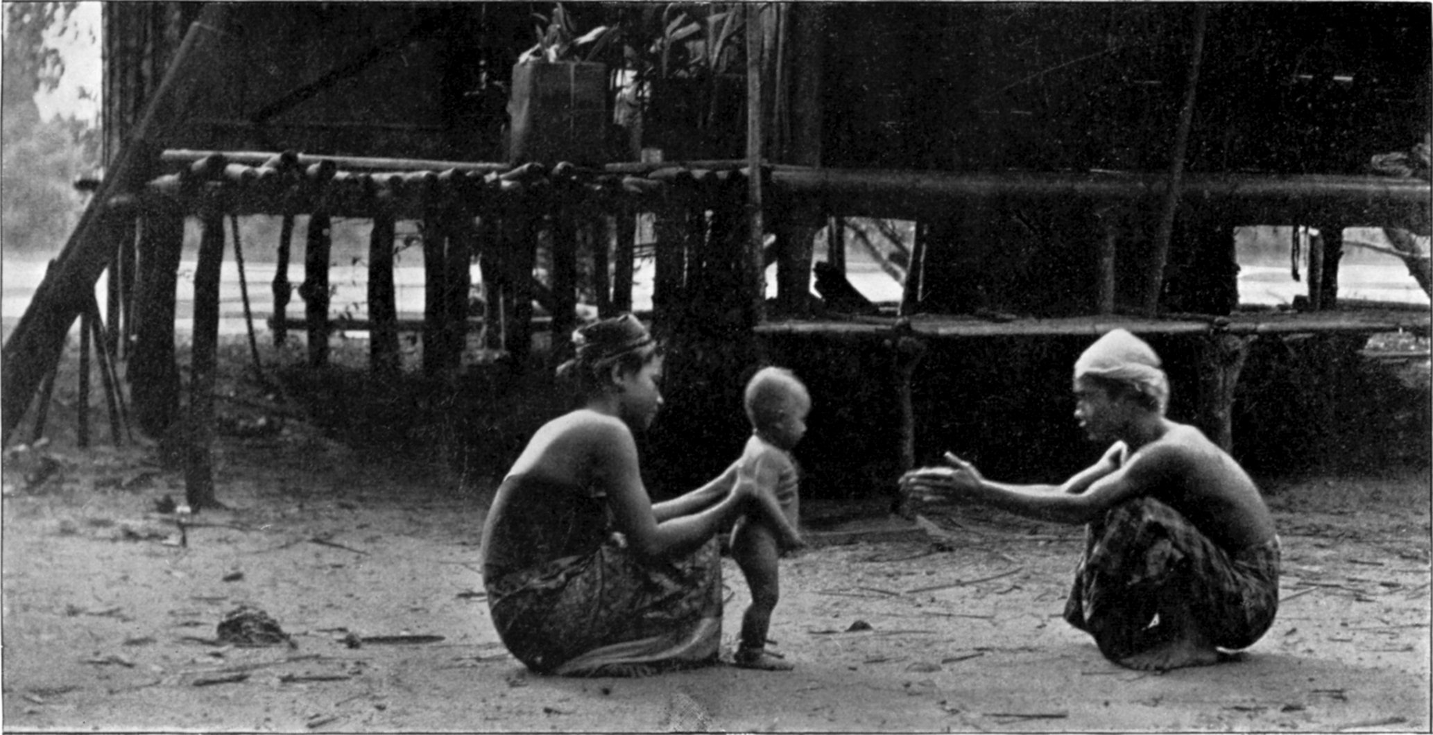 The first step. Burmese family group. Woman in Tamein.